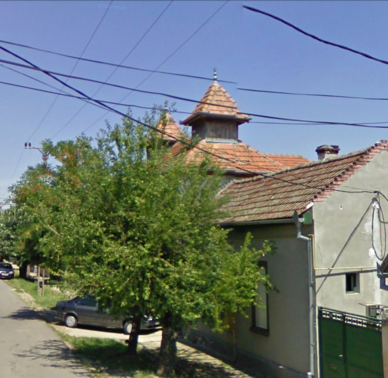 Arad Parneava Gheorghe Doja